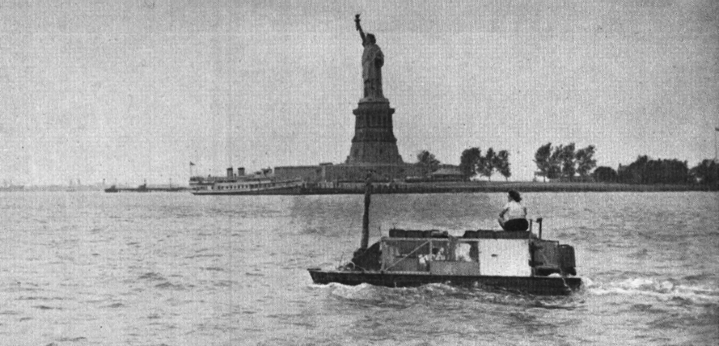 A photograph of Ben Carlin's craft Half-Safe leaving New York Harbor in 1948.